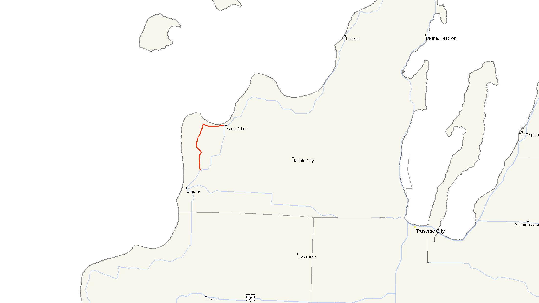 Map of M-109